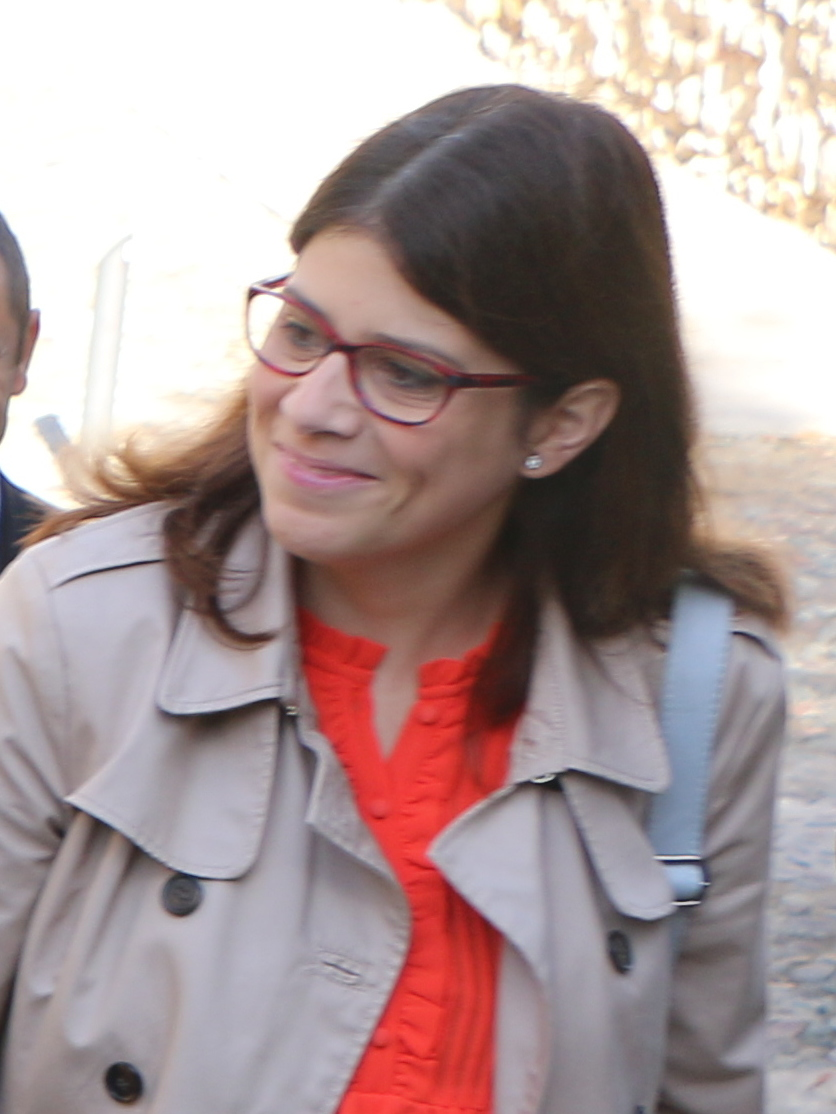 Acte d'investidura de Lluís Llach i Miquel Martí i Pol com a doctors honoris causa 20 d'octubre Aula Magna Modest Prats Universitat de Girona